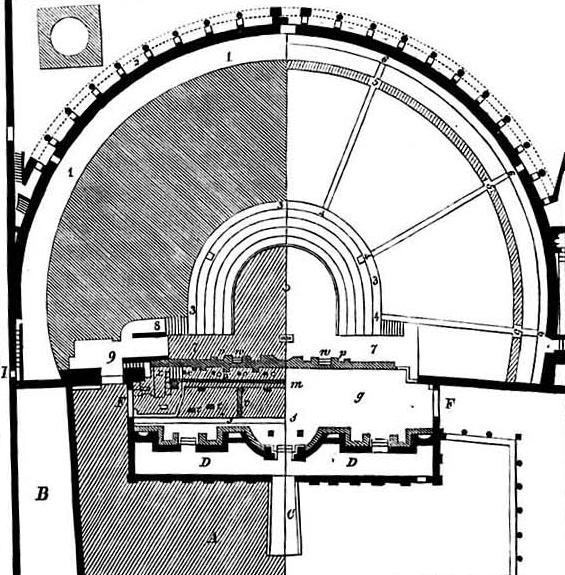 Theatre, Pompeii, plan.